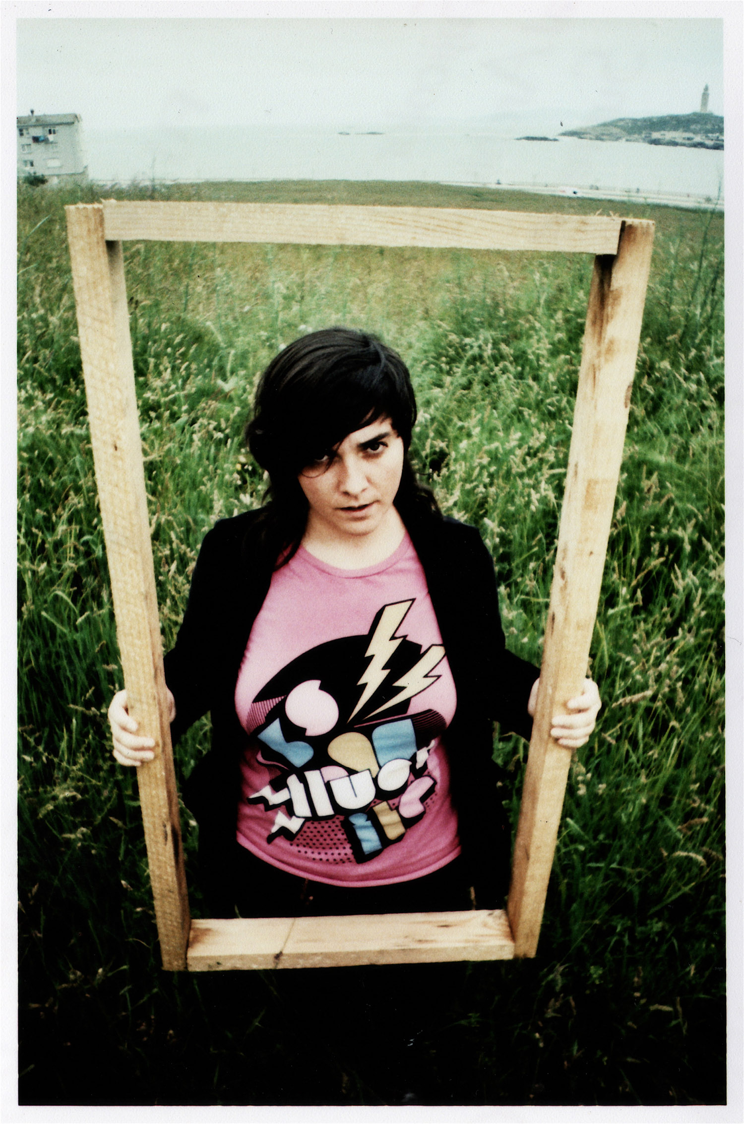 Galician artist Lucia Aldao framed on a meadow